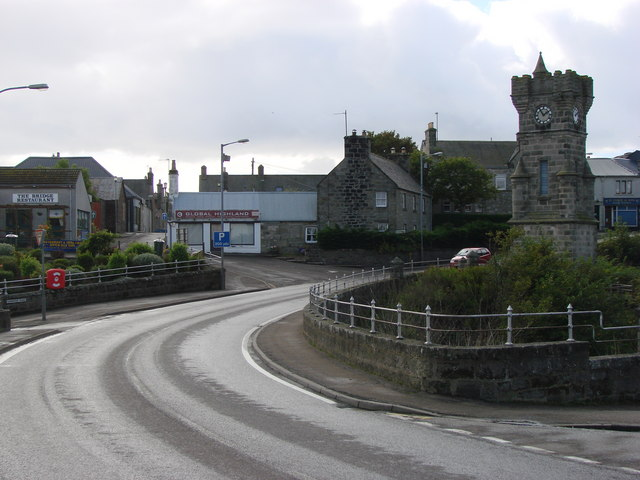 Road Bridge over the River Brora This is the main A9 Trunk Road crossing the River Brora, in the town of Brora.